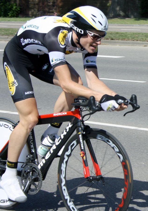 Ben Hermans at the 2009 Eneco Tour prologue